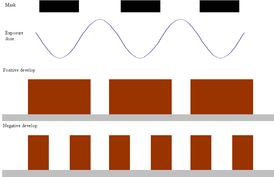 Dual-tone development process. The first develop step removes the high exposure dose regions, the second develop step removes the lowest exposure dose regions. Ref: C. Fonseca et al., Proc. SPIE vol. 7274, 72740I (2009).